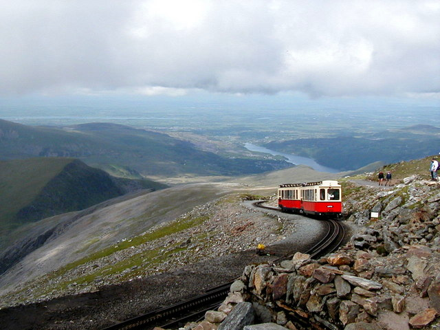 Snowdon Mountain Railway